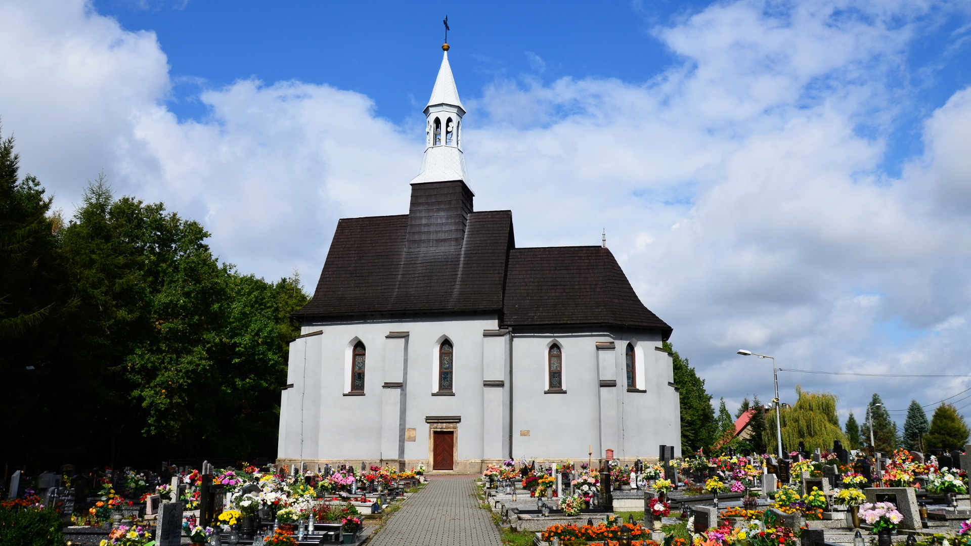 Saint Lawrence church in Orzesze